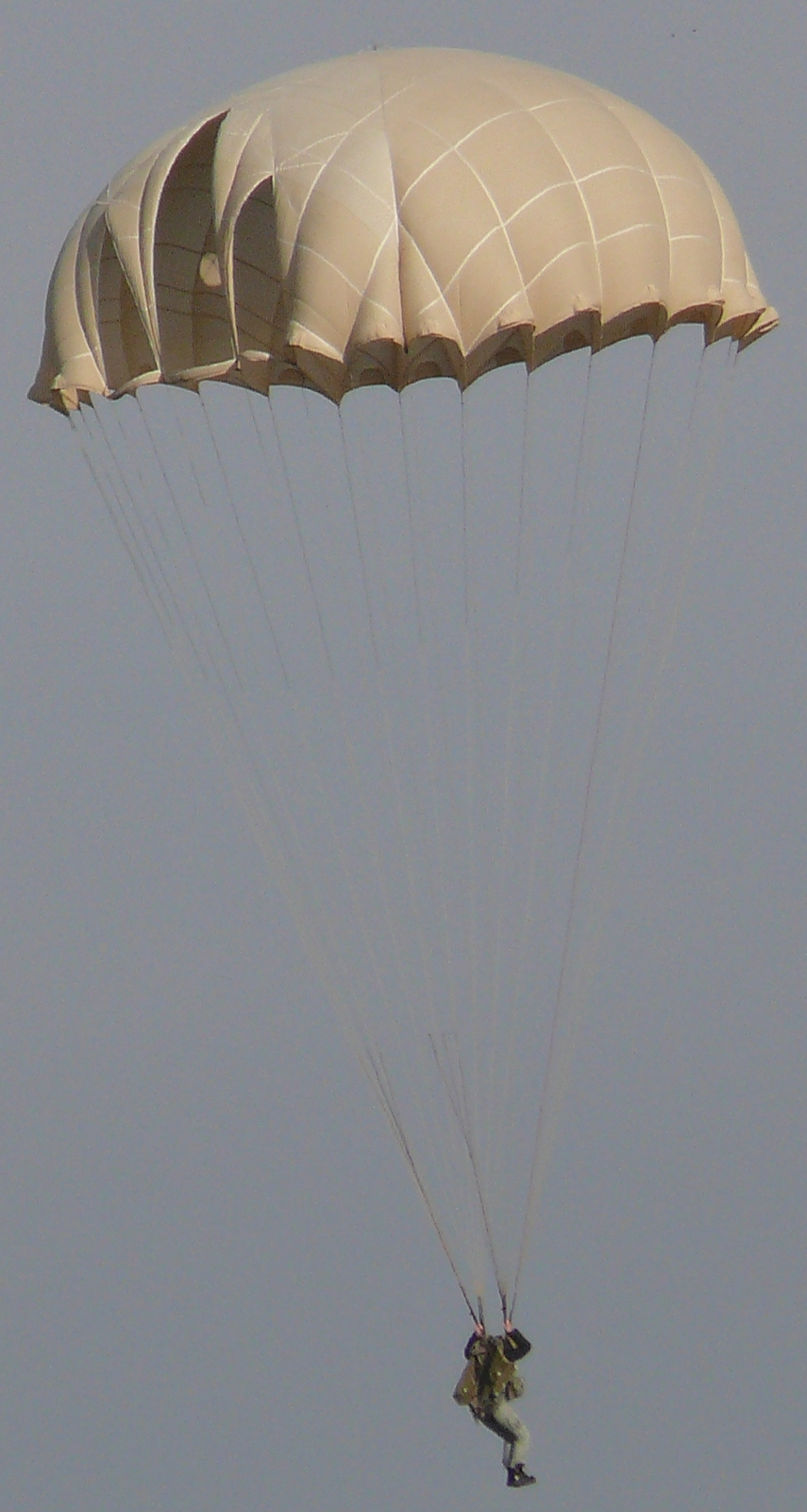 Parachute D-1-5u